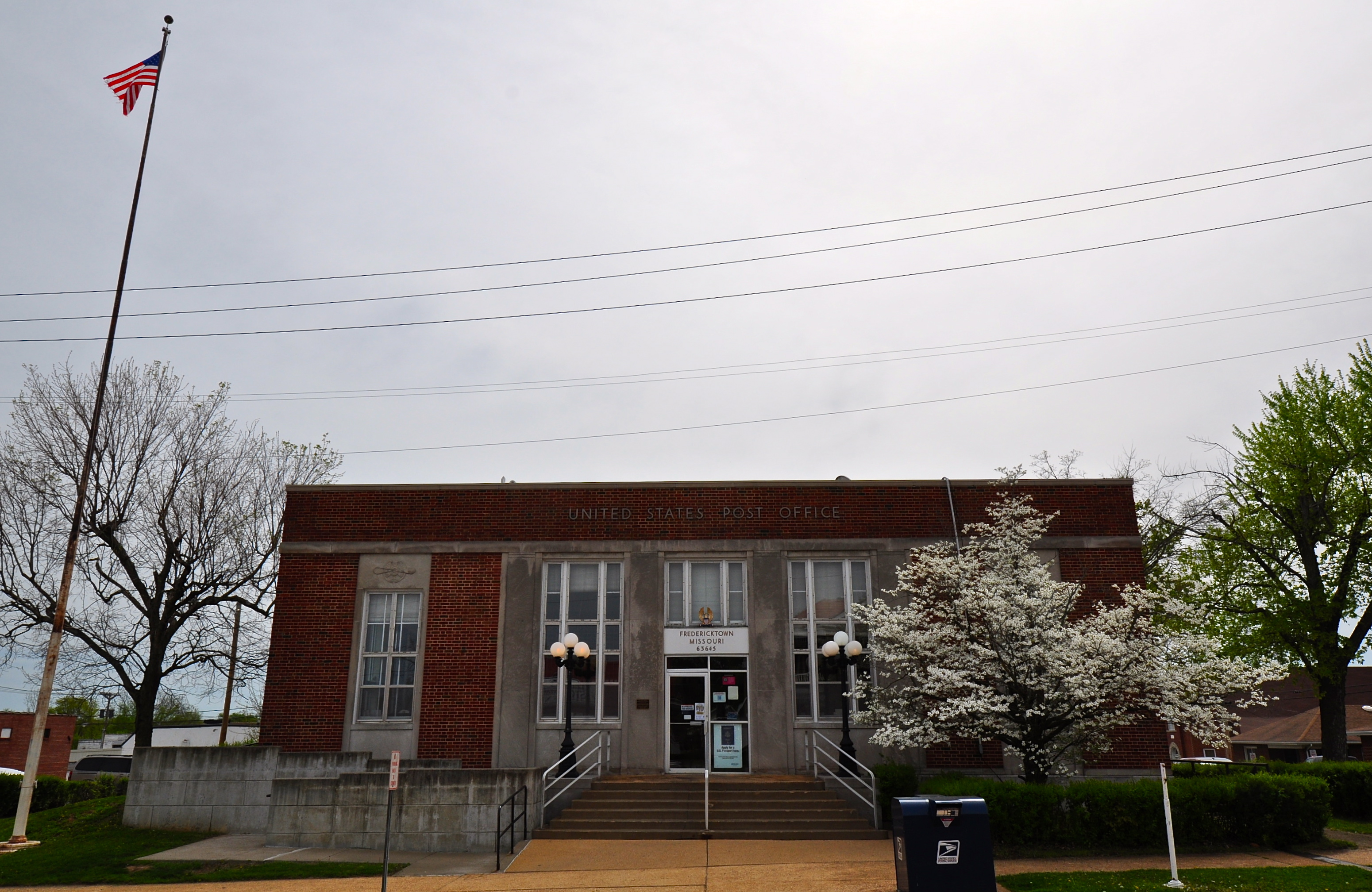 Located at Fredericktown, Madison County, Missouri. Listed 8 October 2009.